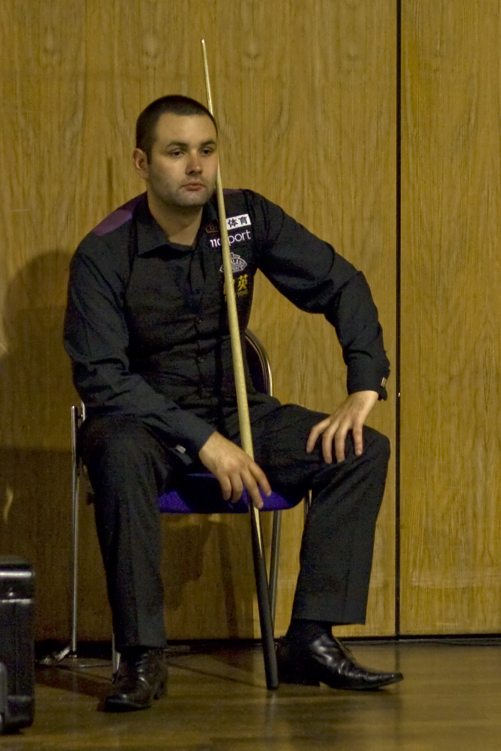 Stephen Maguire at the Paul Hunter Classic 2009